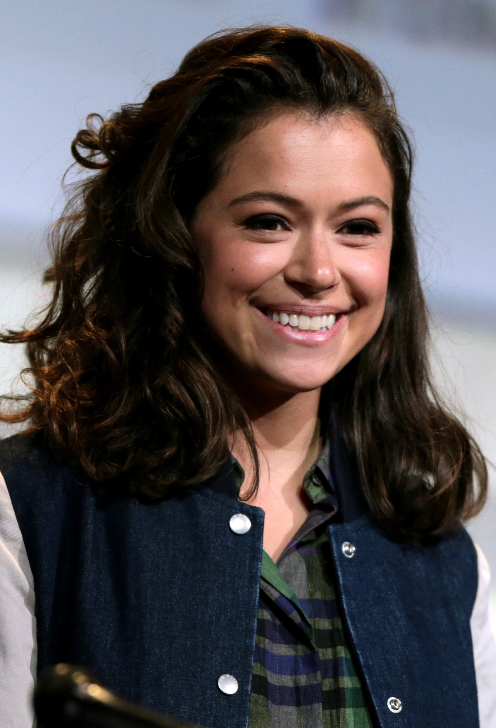 Tatiana Maslany speaking at the 2016 San Diego Comic-Con International in San Diego, California.